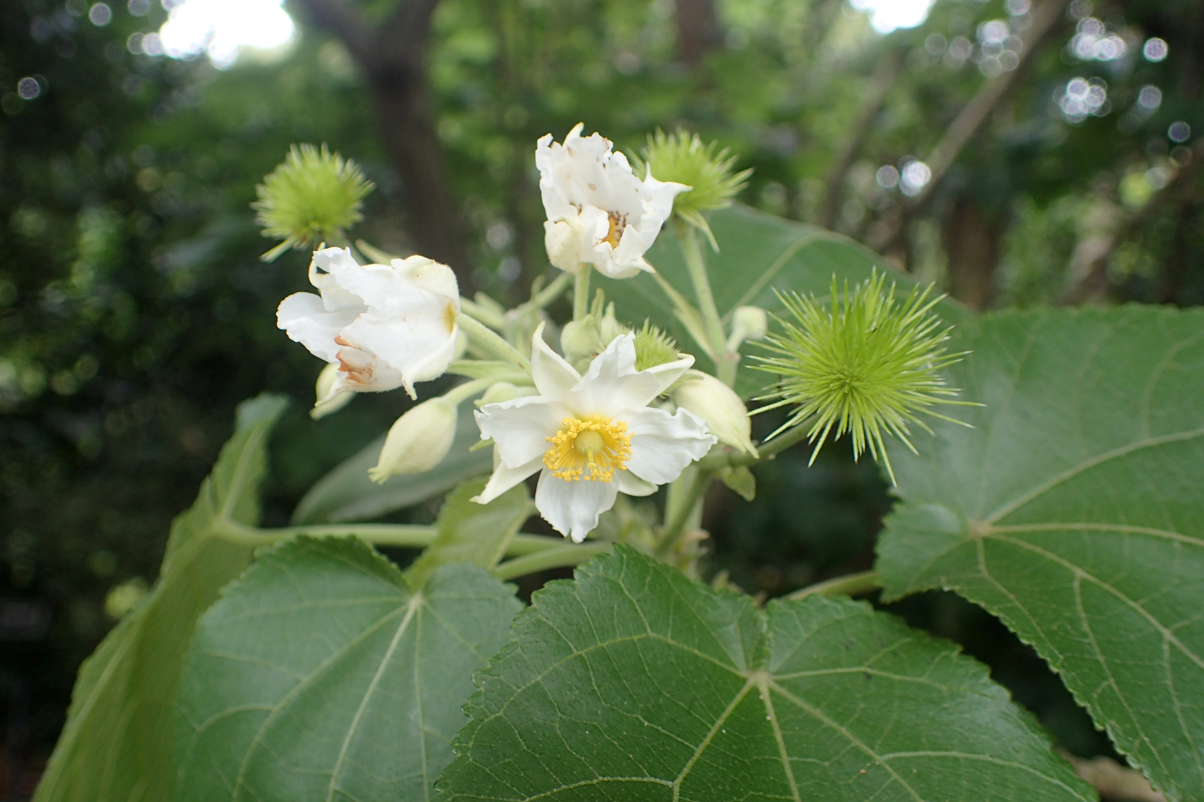 Entelea arborescens in Auckland Botanic Gardens